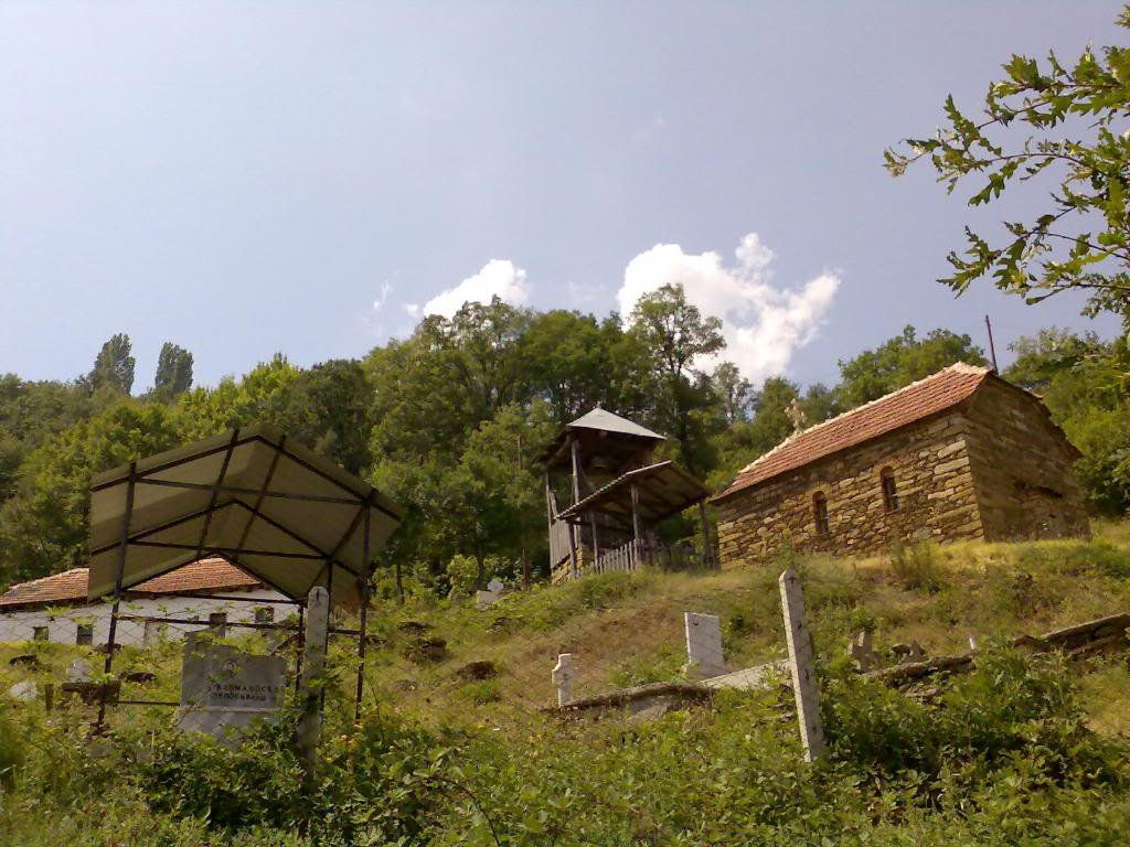 Village of Zvechan, Poreche region, Republic of Macedonia